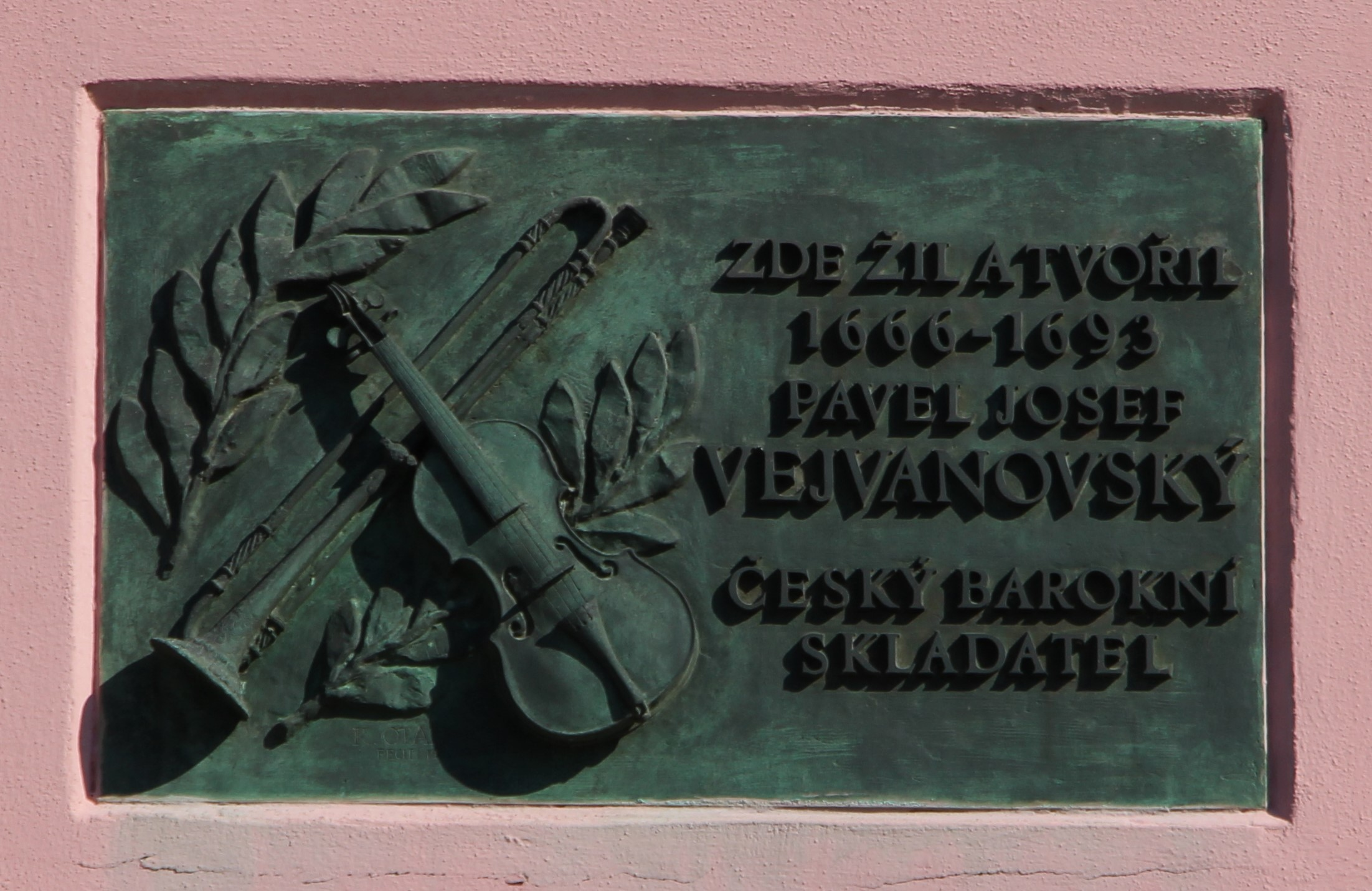 House at the Velke Square in Kroměříž, Czech Republic